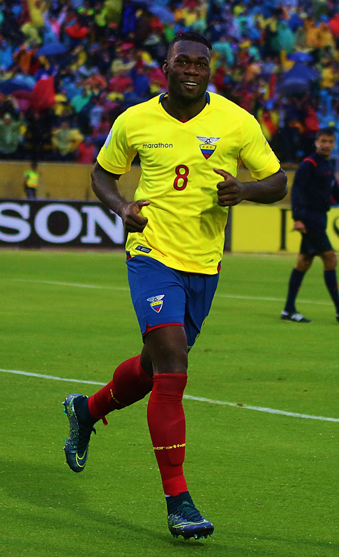 Felipe Caicedo